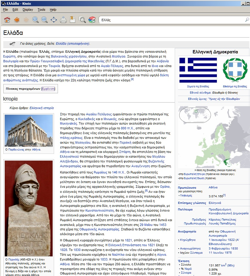 Kiwix screen